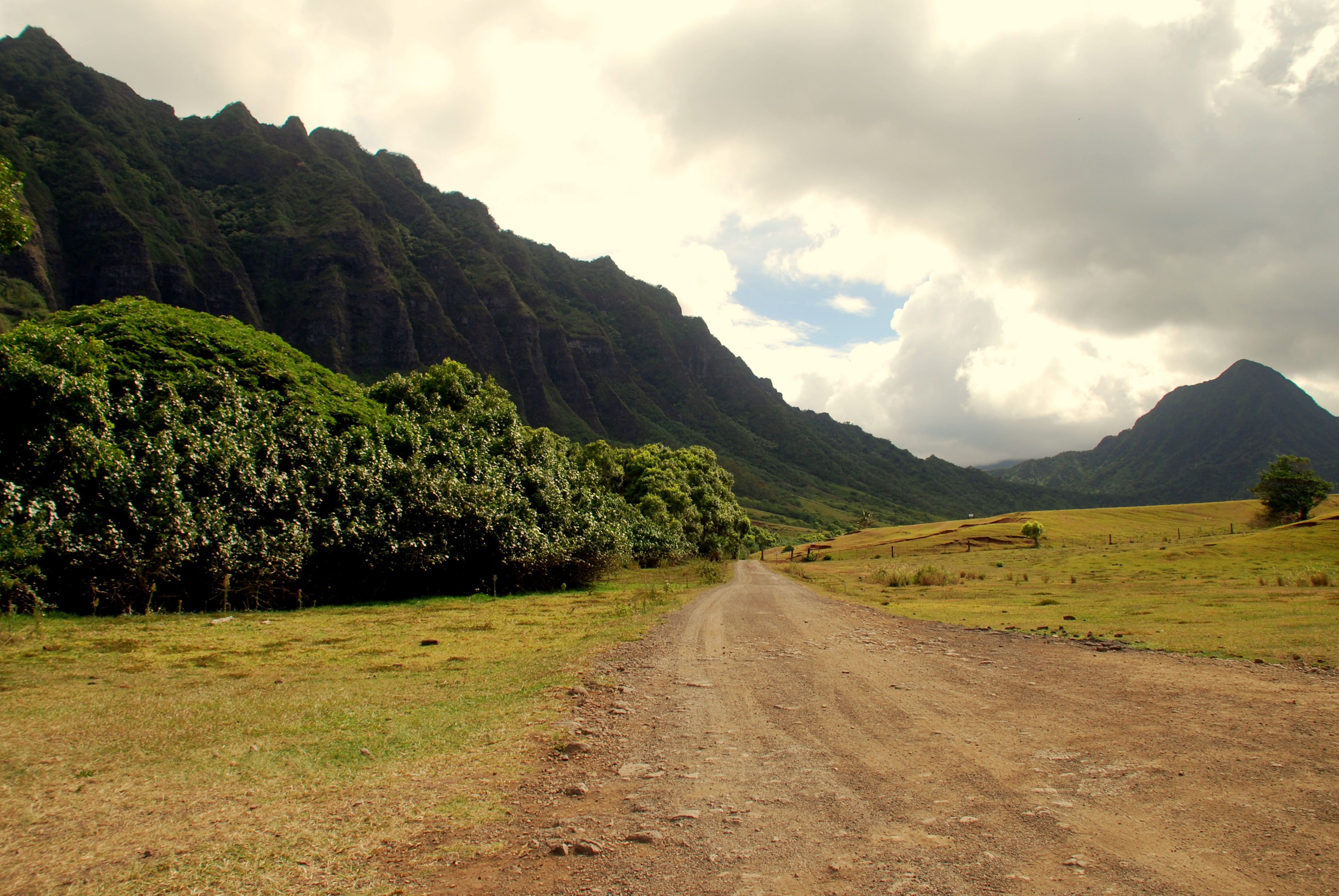 Kualoa Ahupua'a Historical District